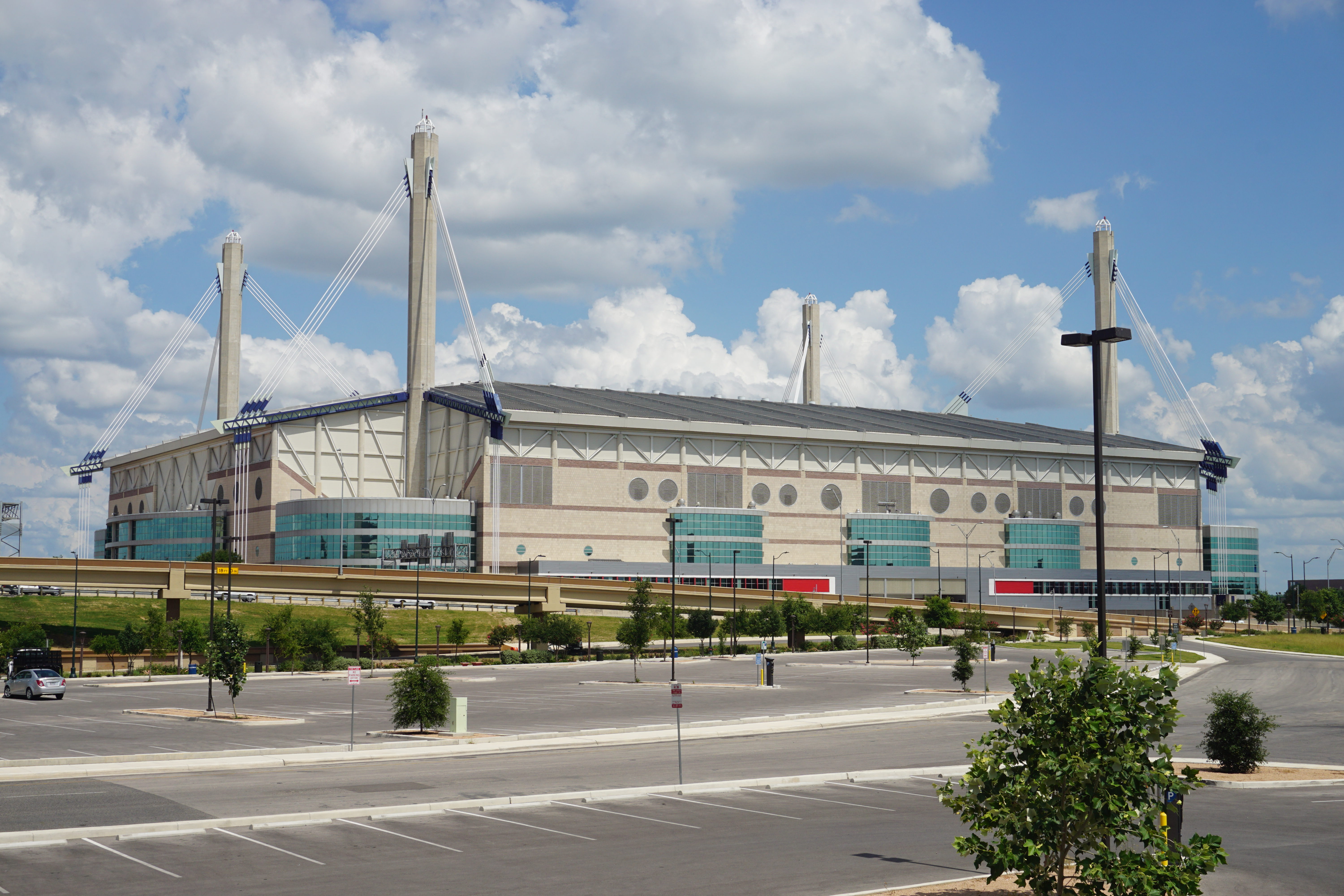 The Alamodome in San Antonio, Texas (United States).